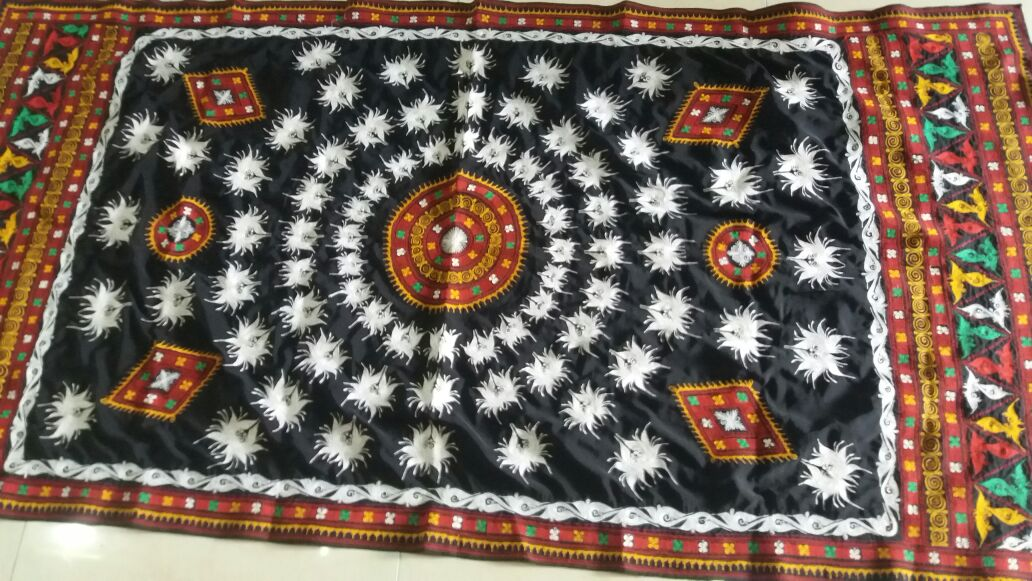 Upuh Ulen-Ulen. From the collection of the Indonesian poetess Deklon Kemalavati. (Banda Aceh)